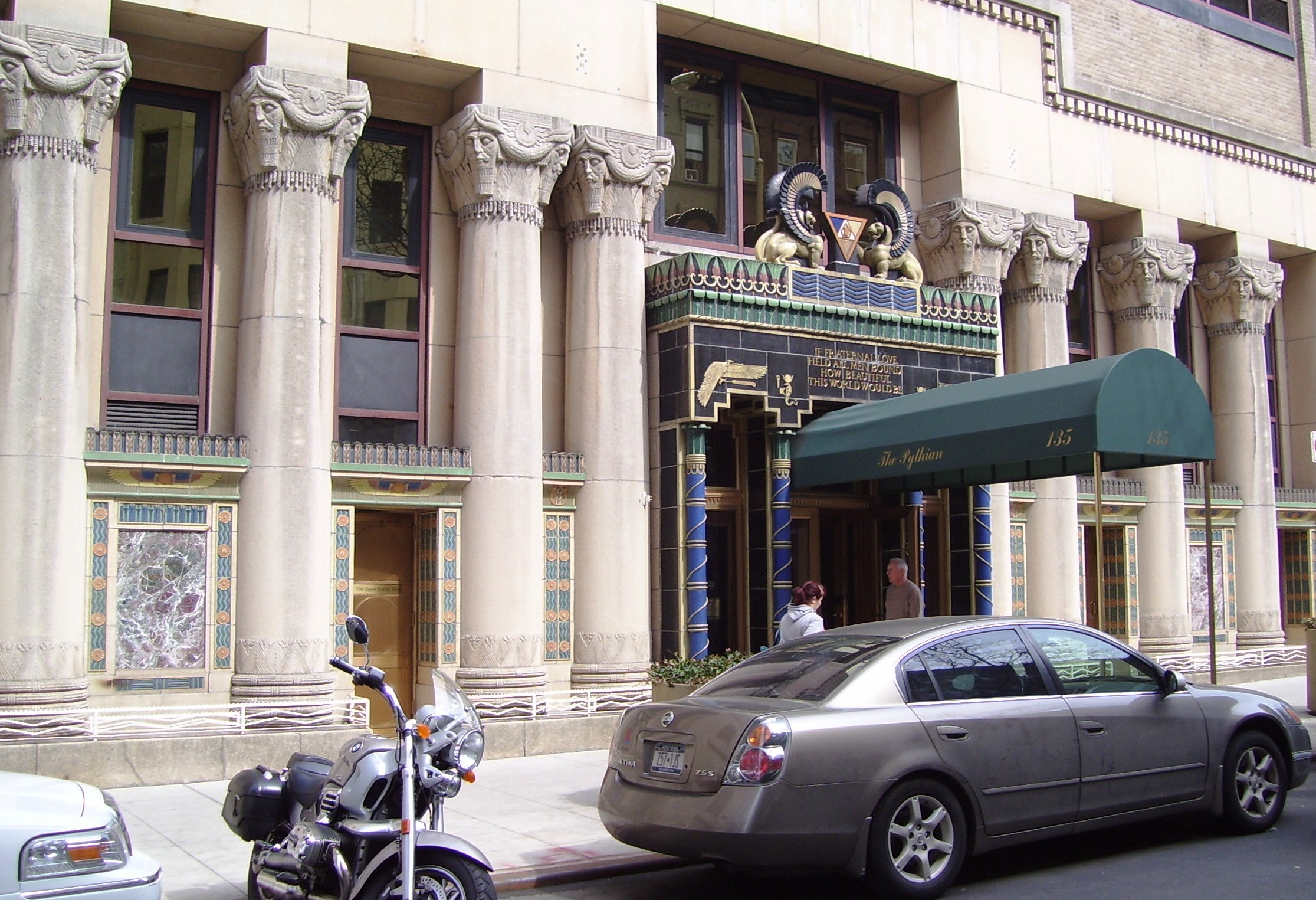 The former Pythian Temple at 135 West 70th Street between Columbus Avenue and Broadway in the Lincoln Square neighborhood of Manhattan, New York City, was built in 1927 as a clubhouse for the Knights of Pythias. It was designed by Thomas W. Lamb in Egyptian Revival Art Deco style. In 1986, David Gura renovated it to become a condominium apartment building, The Pythian. (Source: AIA Guide to NYC (4th ed.))